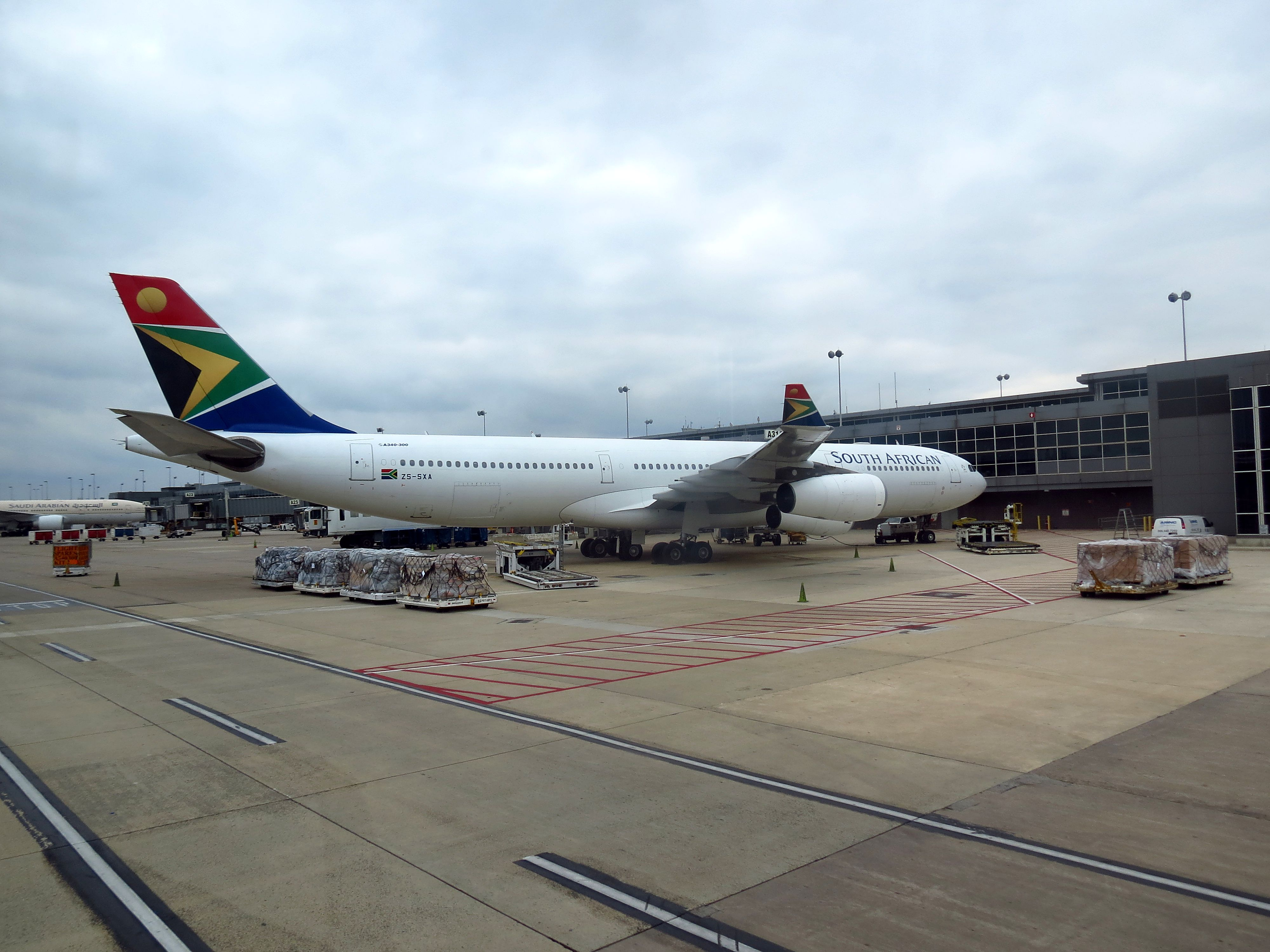 South African Airbus A340-300 Washington Dulles International Airport